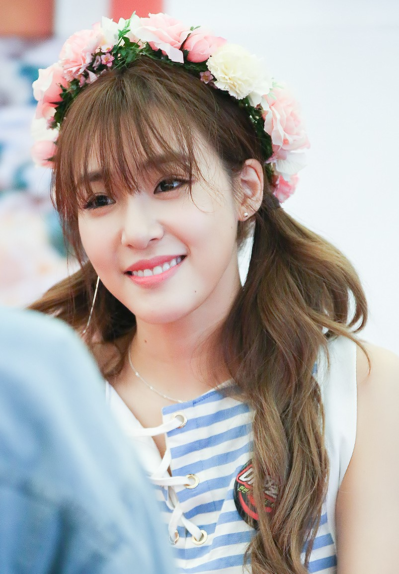 Tiffany Hwang at a fansigning in Busan, on June 6, 2016.